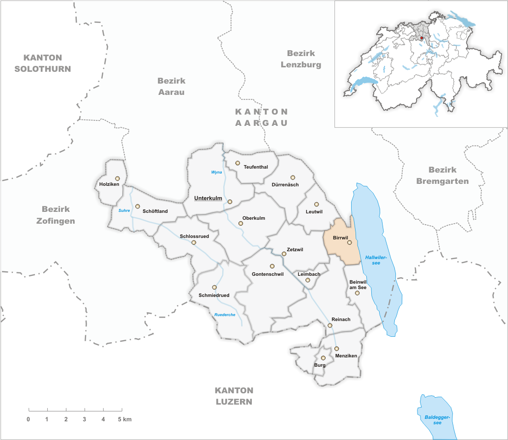 Municipality Birrwil